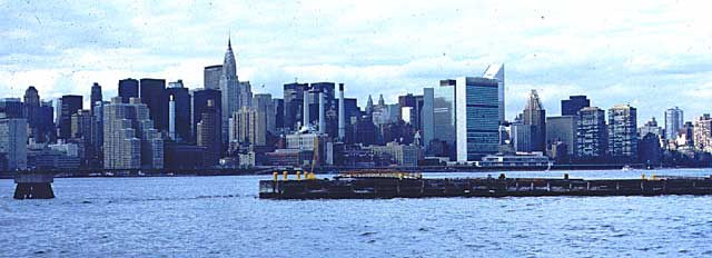 Views from Greenpoint's East River waterfront of Manhattan with Green Street Pier in foreground. I took this photo in 1998.